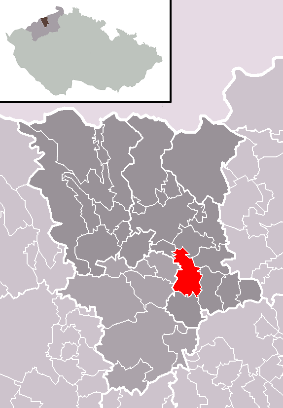 Location of Bžany municipality within Teplice District and administrative area of Teplice as a Municipality with Extended Competence.